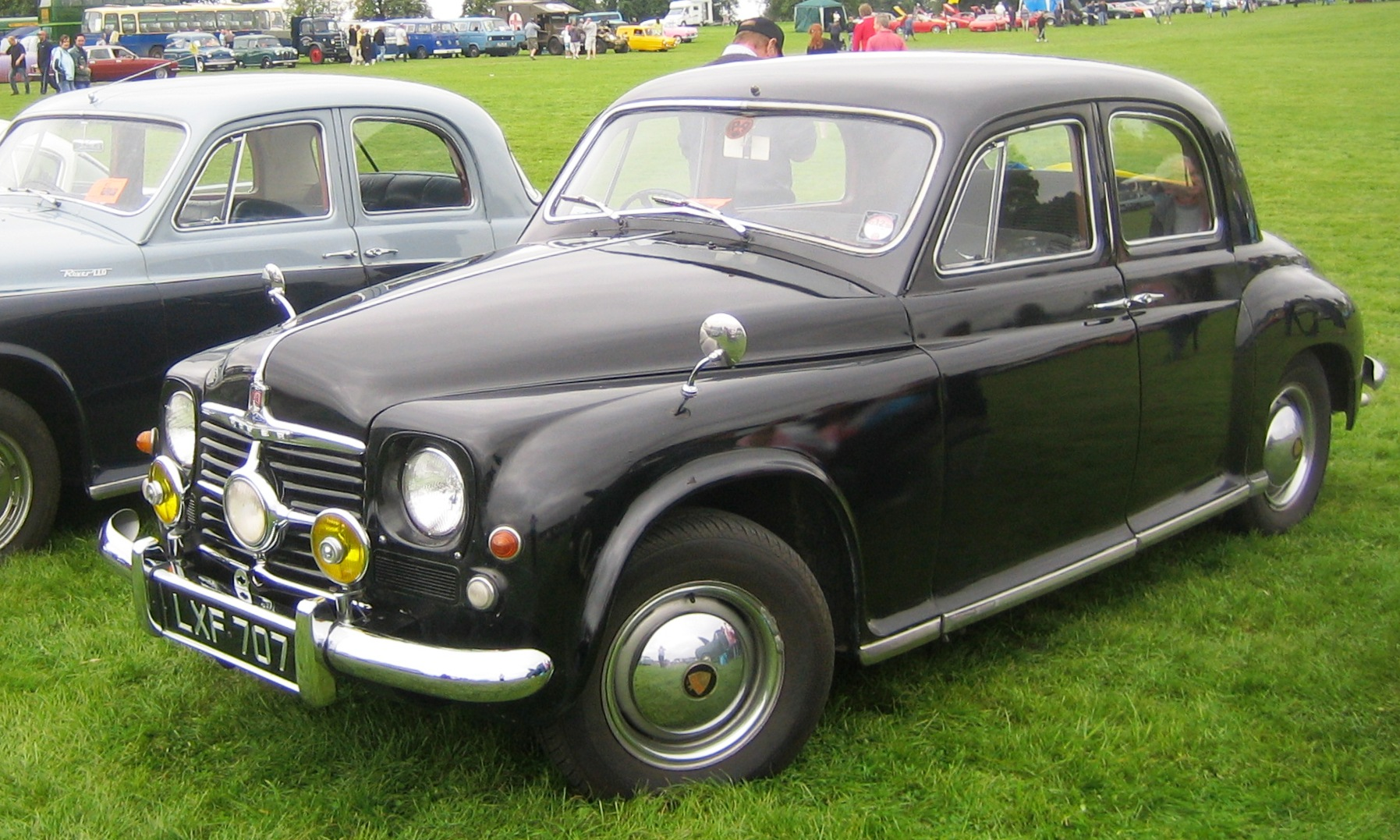 1950 Rover 75 (DVLA) first registered 1 December 1950, 2103 cc at Classic Car Show in Hertfordshire. The single central front light distinguished the car from competitor vehicles but was after a few years discontinued in the face of market resistance.